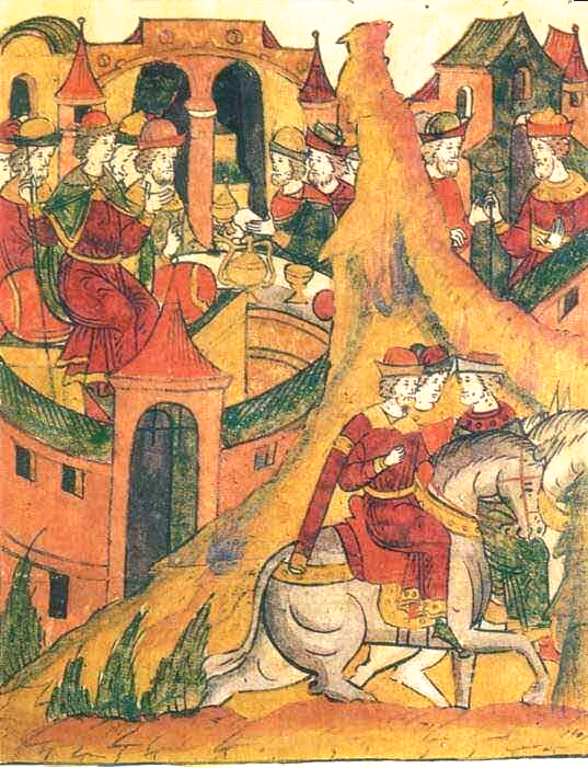 Ivan the Terrible sending Russian envozs on Lithuania